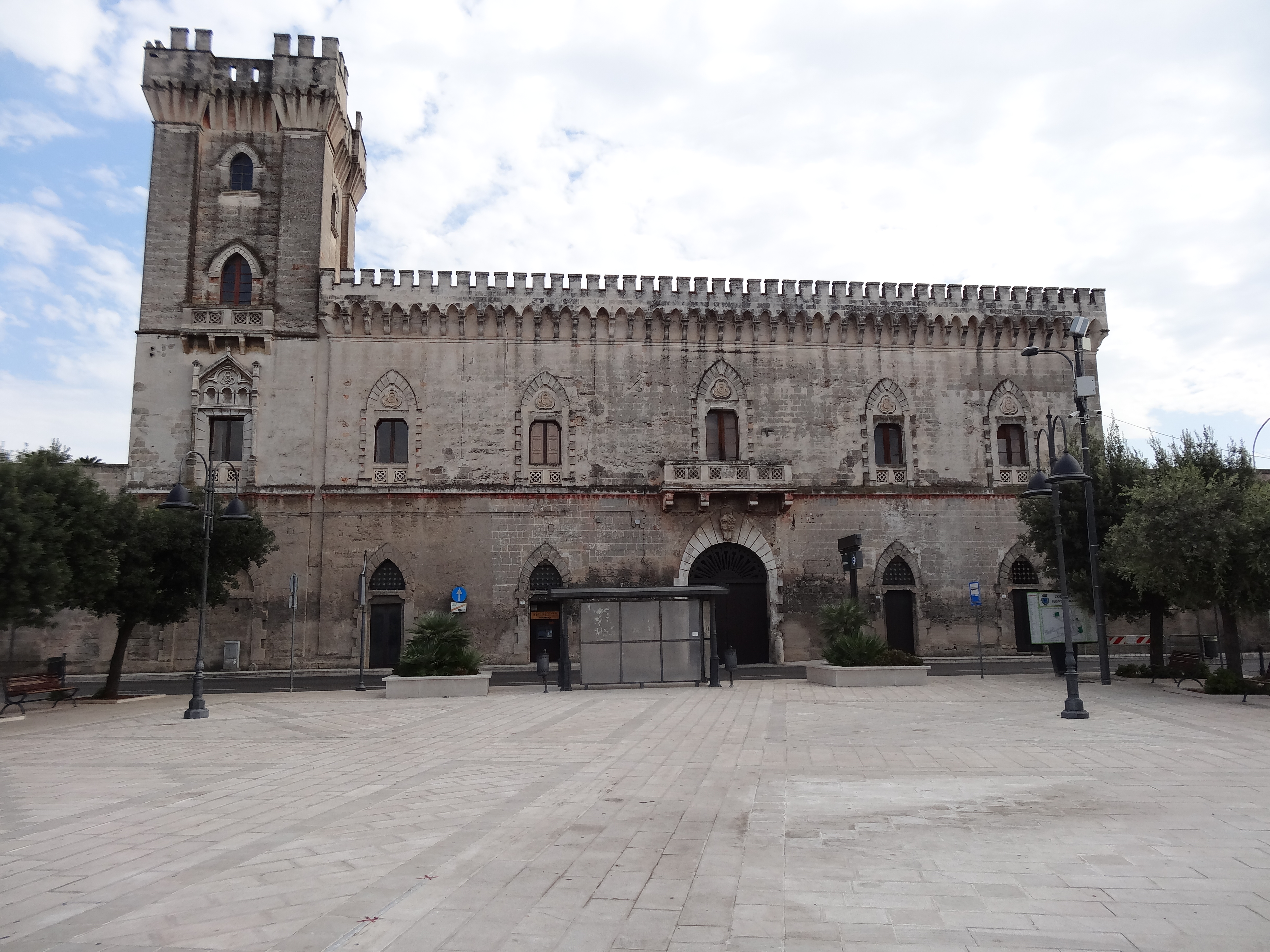 Castello Monteparano